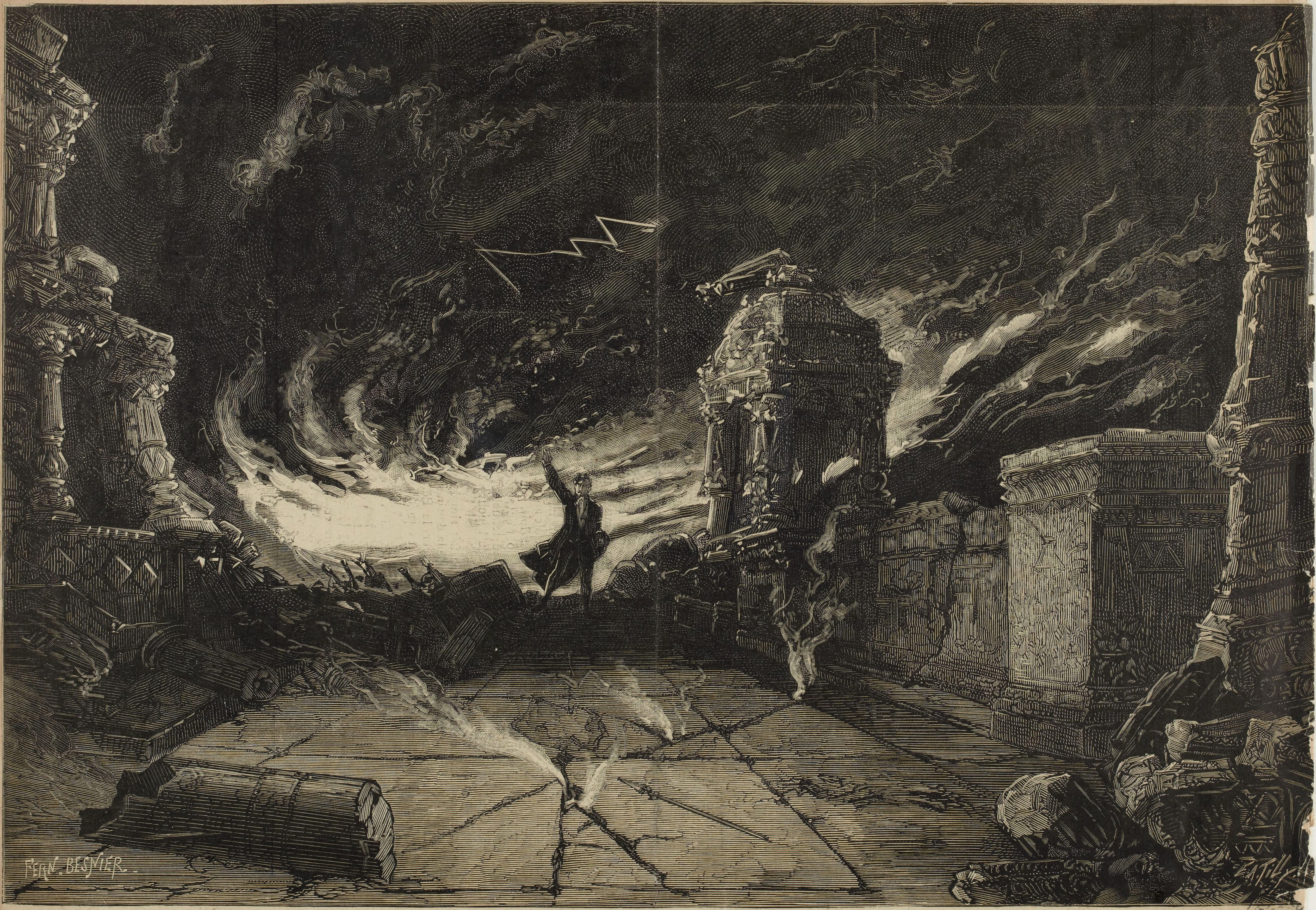 Drawing by Besnier for L'Illustration (Vol. LXXX, No. 2075, 2 December 1882, page 861), showing a scene on the planet Altor from the play Voyage à travers l'impossible. More information about this engraving here.